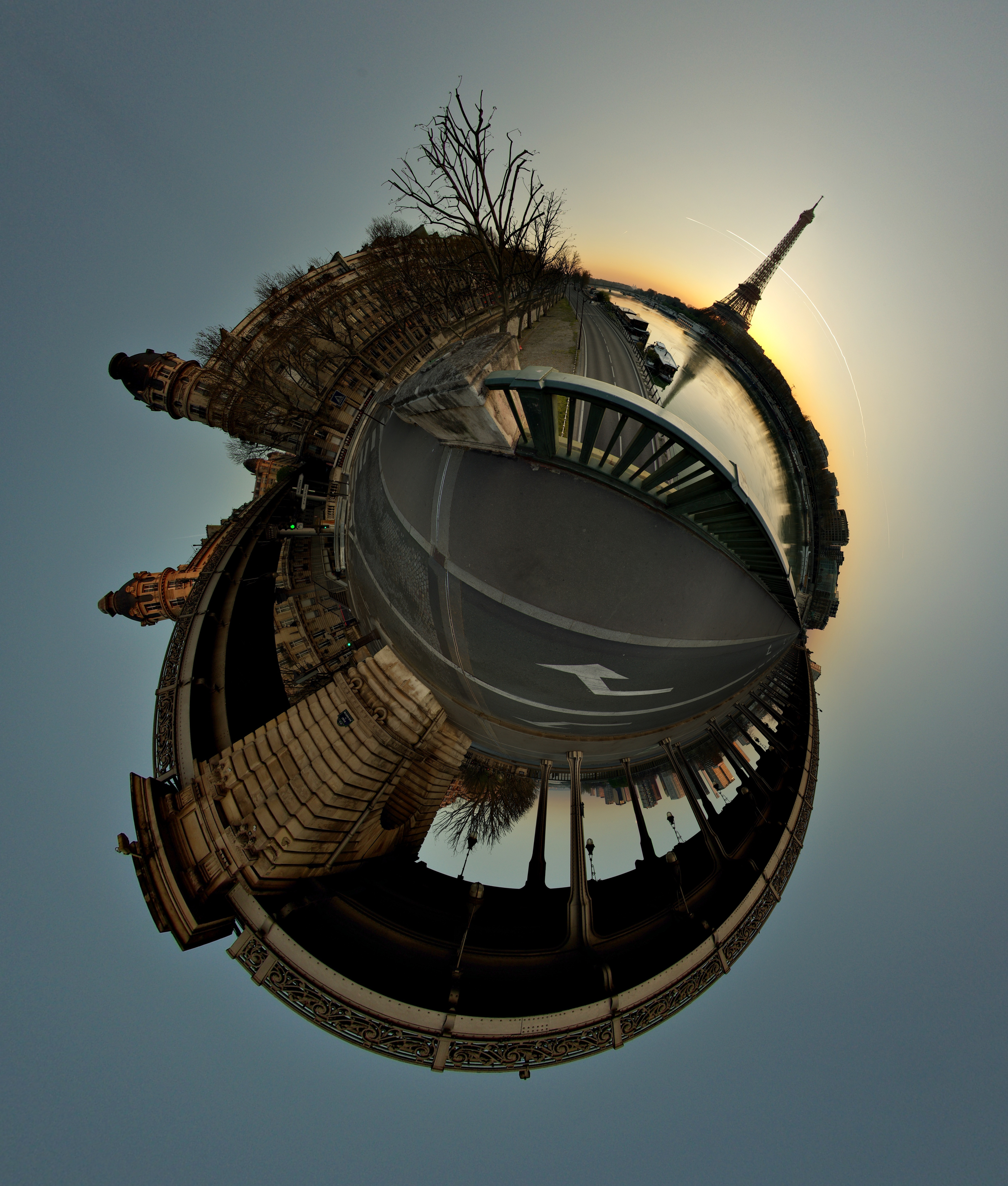 Stereographic projection of this equirectangular panorama. The original 5000x6667 picture is elsewhere due to a flickr limitation. Part of my Wee planets set.